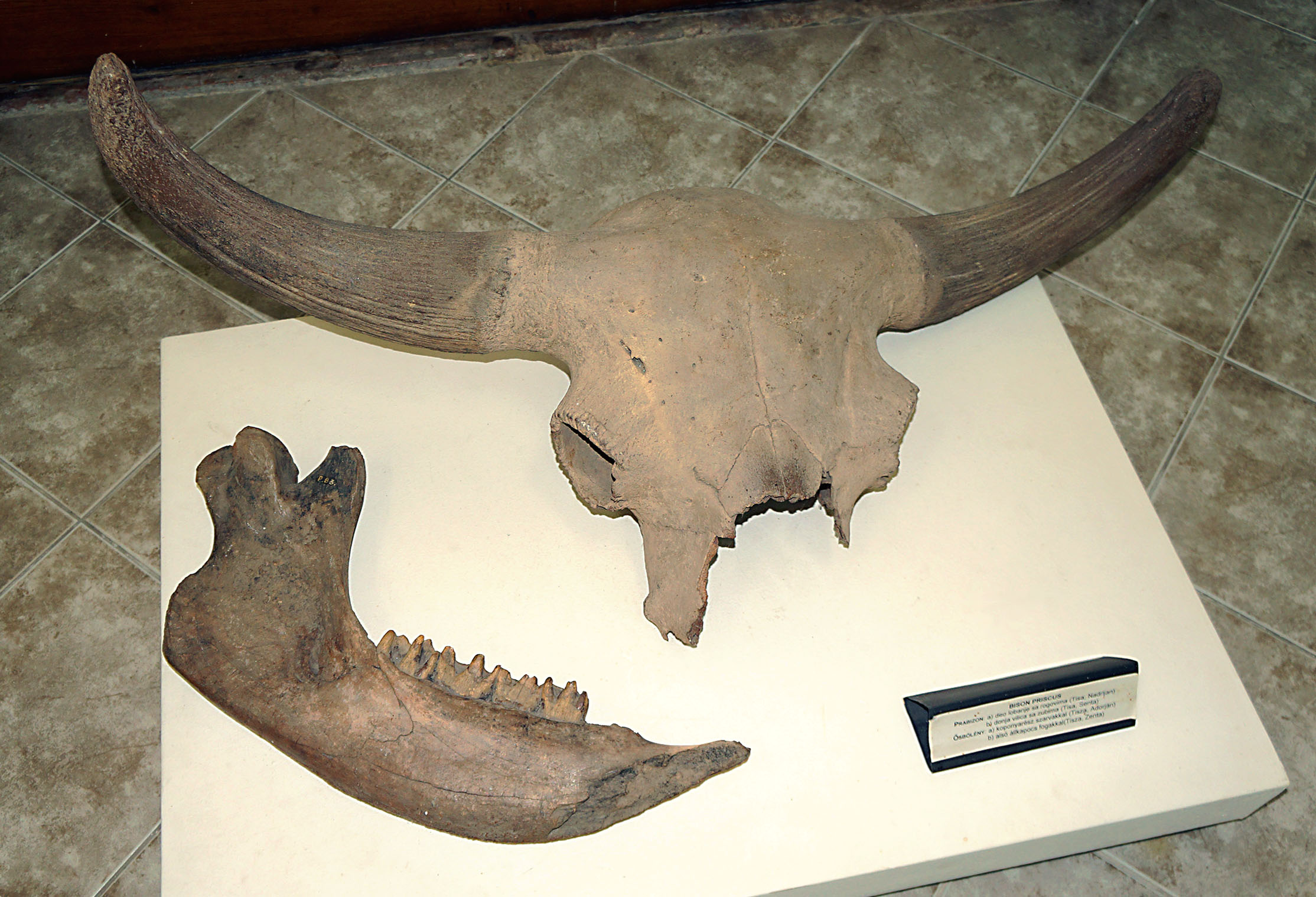 Senta/Zenta museum exhibit: fossil skull of a Steppe bison, Bison priscus